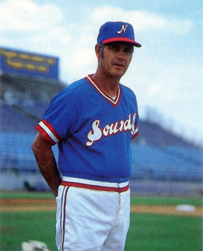 Pitching coach Hoyt Wilhelm of the 1983 Nashville Sounds Minor League Baseball team of the Southern League